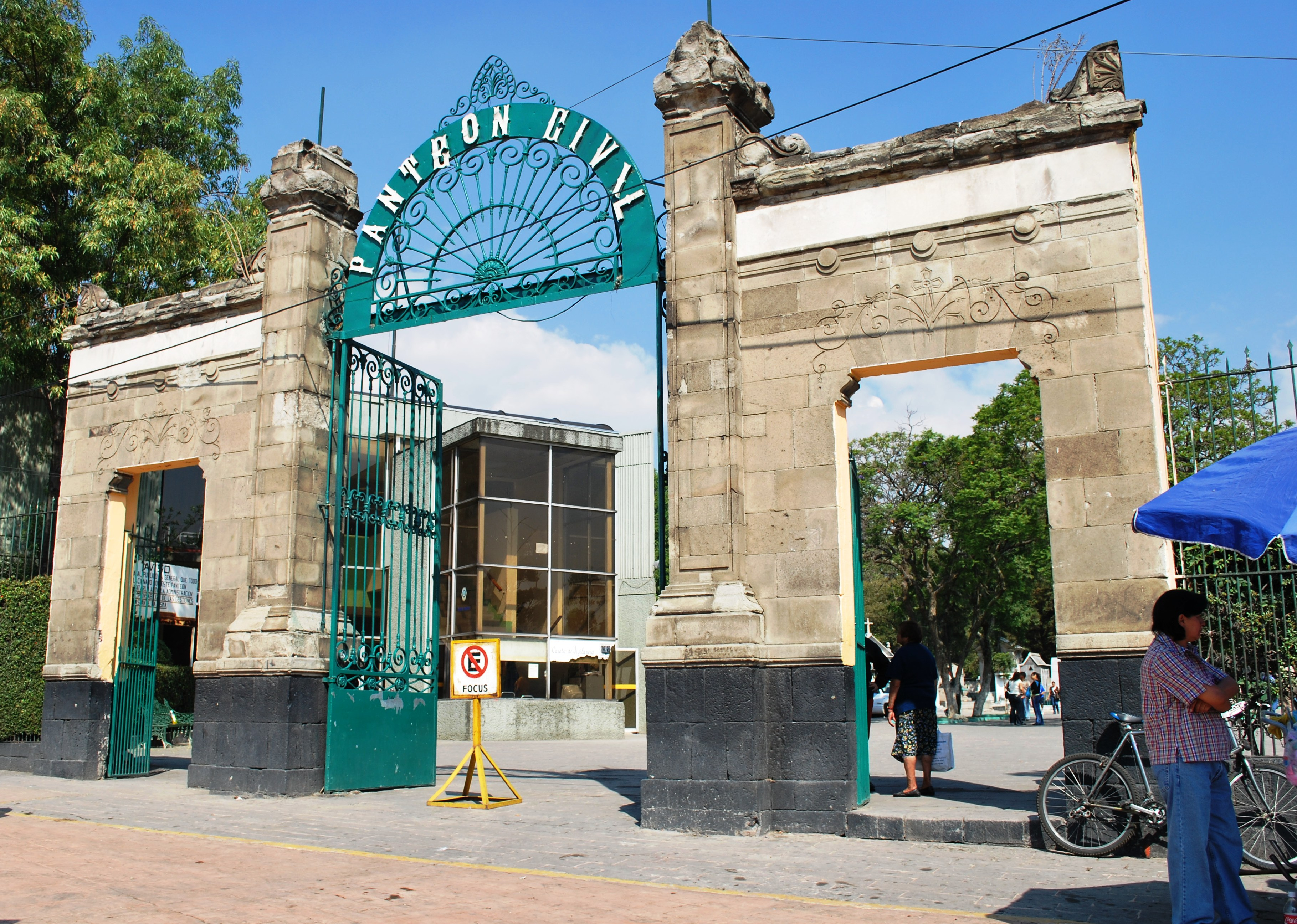 Entrance to the Panteón Civil de Dolores — on Constituyentes Street, in Mexico City.